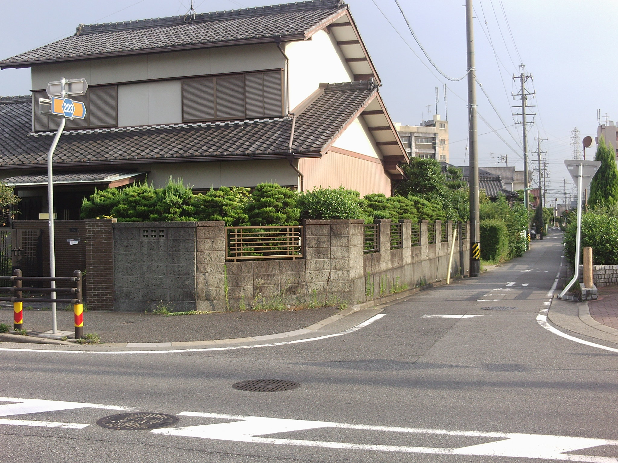 Aichi prefectural road No.223 in Kasaderacho, Minami-ku, Nagoya, Aichi.